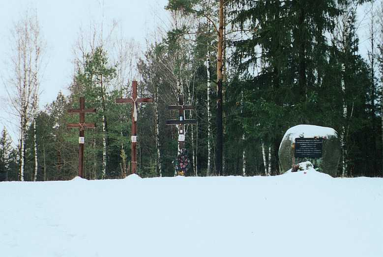 Crosses and memorial stone at Kurapaty, 2000.